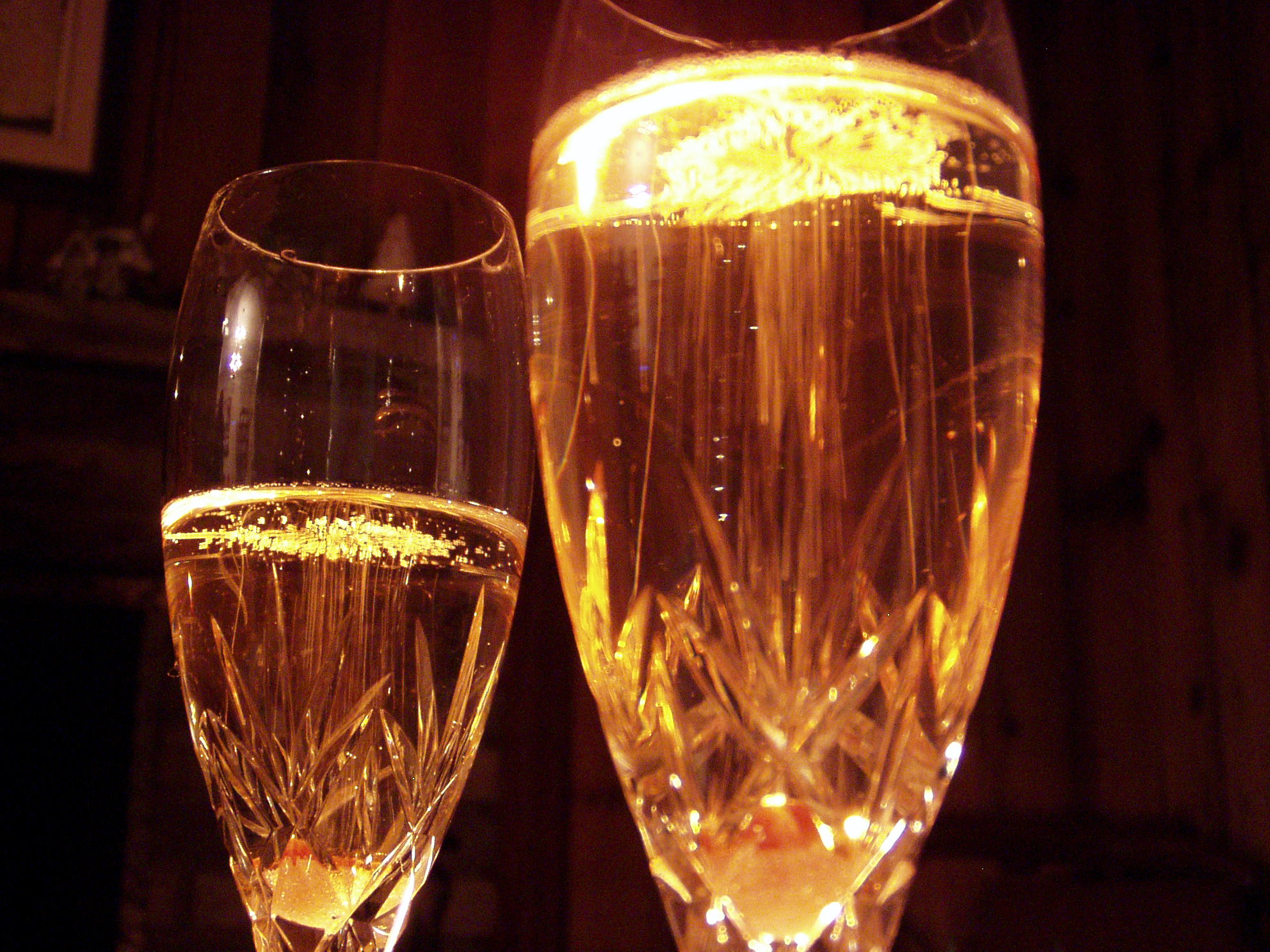 Cocktail by candle light 1: "With some of our living room in the background" (Cocktail, champagne, New Year's Eve 2006)